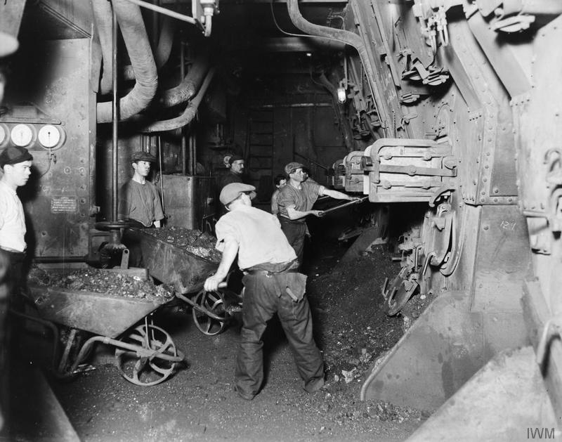 The Merchant Navy on the Home Front, 1914-1918 Men working in the stoke hold of a merchant ship.